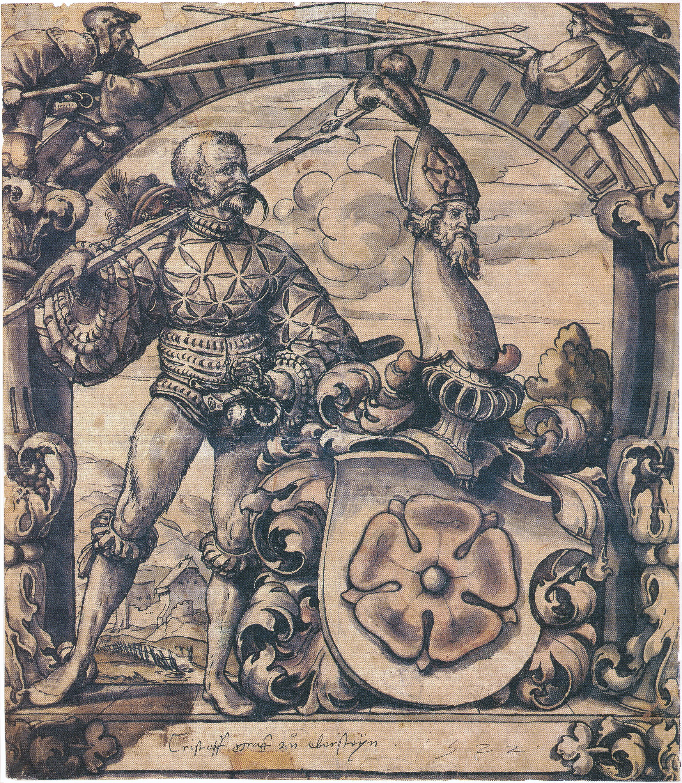 Eberstein Coat of Arms Design for a Stained Glass Window for Christoph von Eberstein. Pen and ink and brush, grey, green, and red washes, over preliminary drawing in black crayon, 29.1 × 33.2 cm, Ashmolean Museum, Oxford. The drawing depicts a landsknecht, a German mercenary pikeman, wearing the peacock feather and saltire crosses of the Habsburgs. On the right is the crest of Christoph von Eberstein, and in the background a landscape. These elements are set within an arch on which two soldiers—the one on the left imperial, the one on the right a Swiss confederate—engage lances with each other. Count Christoph von Eberstein (1502–27) was a renowned landsknecht commander. In April 1522, the landsknechts inflicted a heavy defeat on the Swiss confederates at the Battle of Bicocca (Müller, 276).